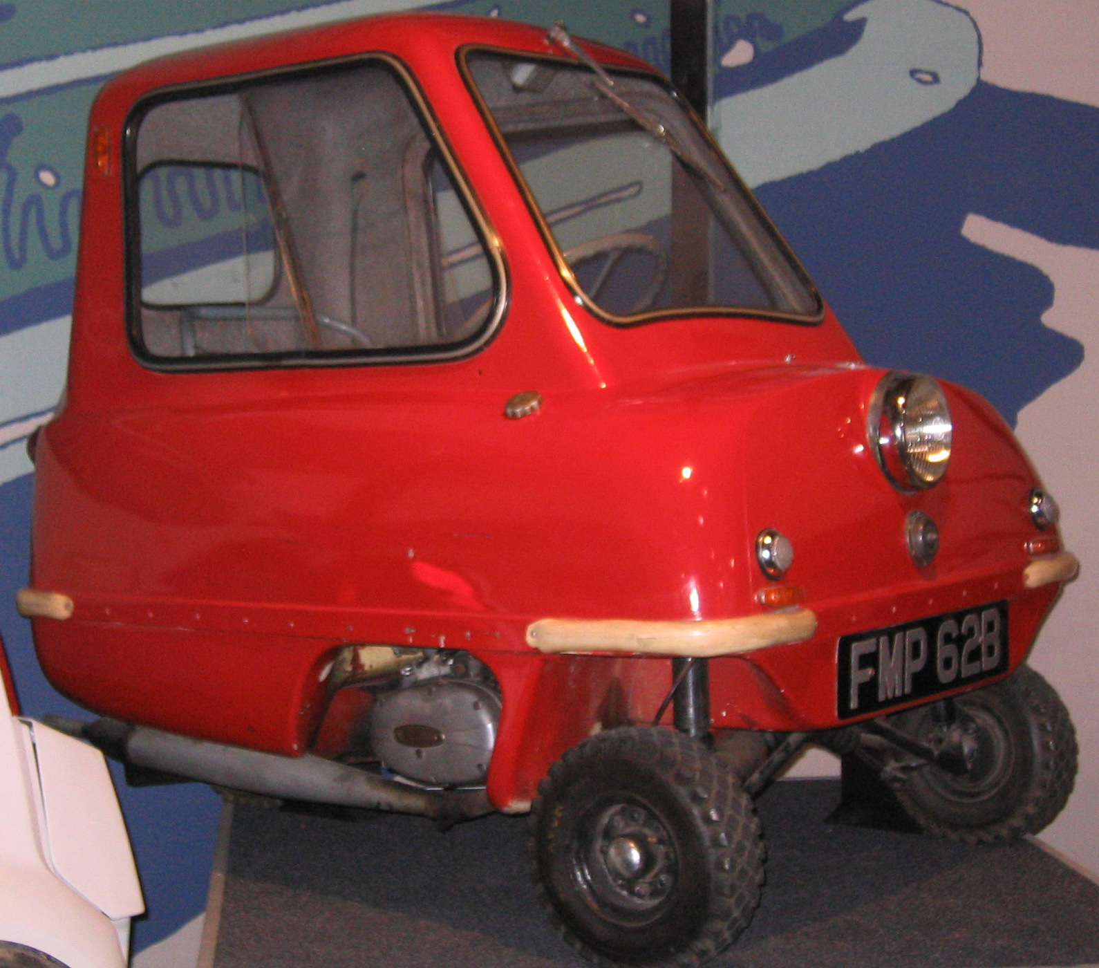 A Peel P50 Car on display at the National Motor Museum in Beaulieu, UK.